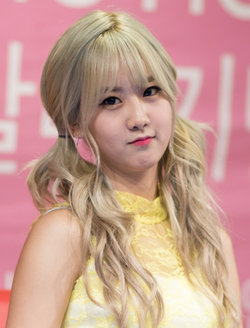 Kang Hyeyeon at a fansigning event in Incheon, 24 May 2015